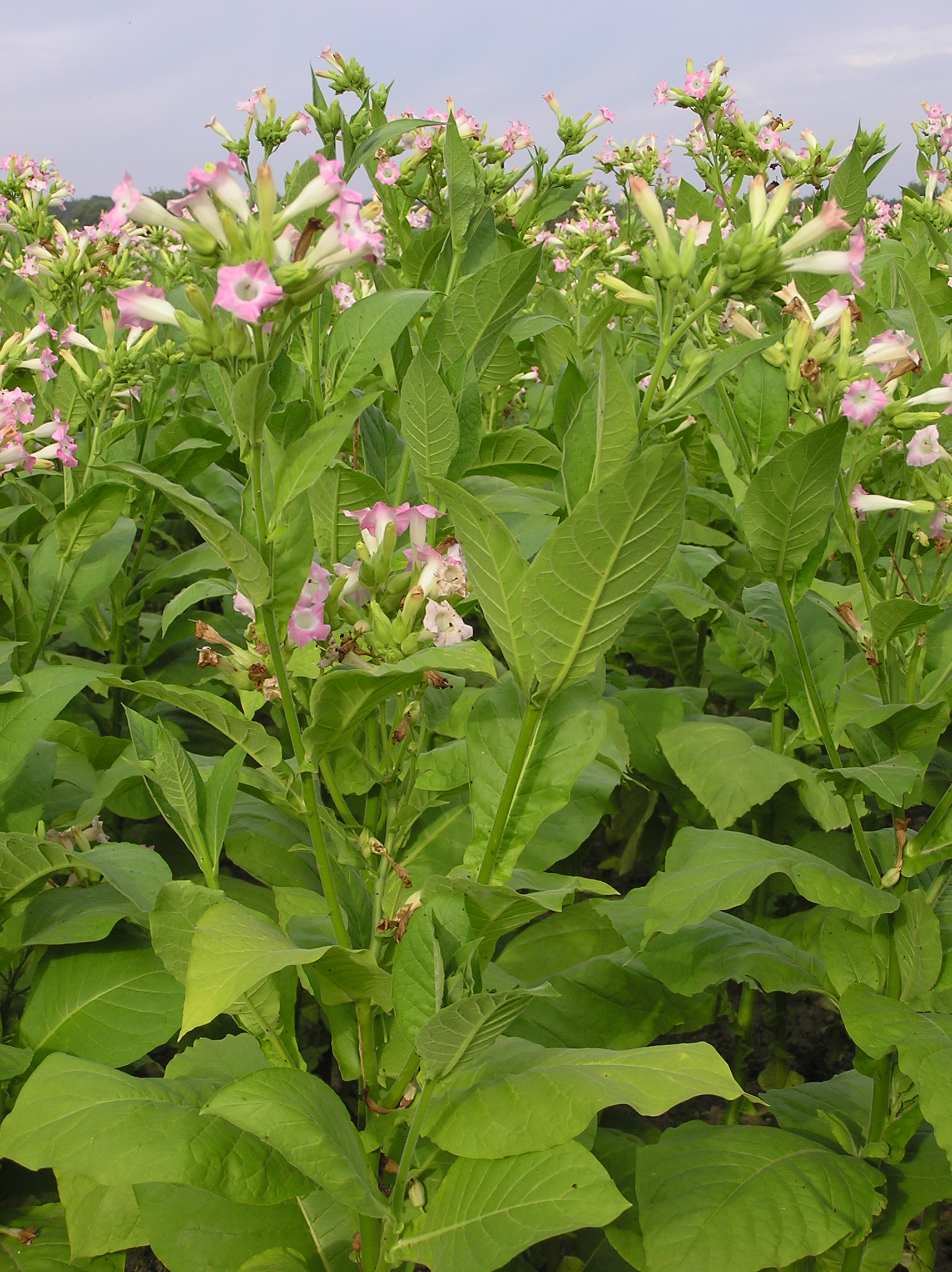 Nicotiana tabacum (Virginischer Tabak)